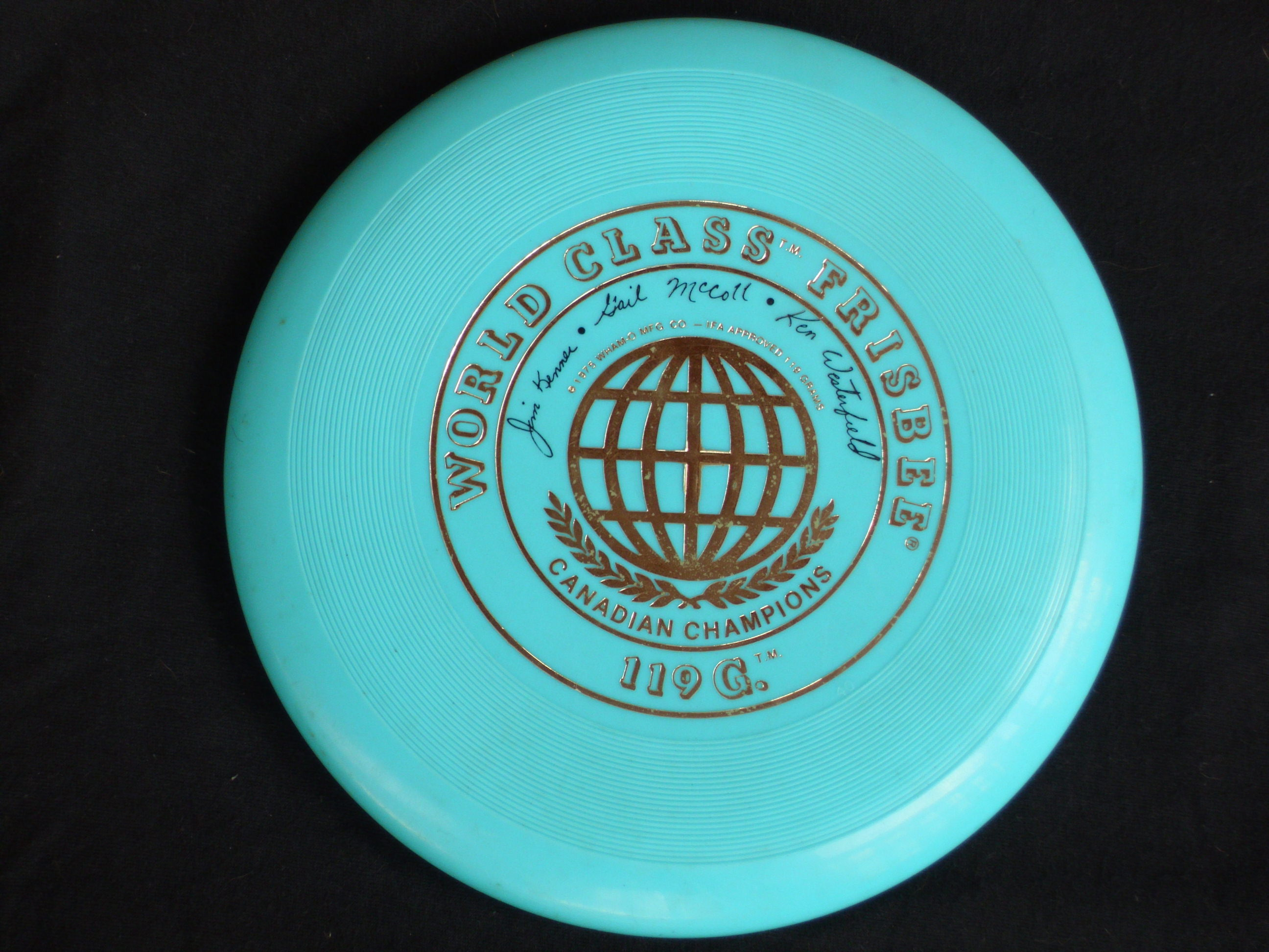 Jim Kenner Gail McColl Ken Westerfield signature endorsed the World Class Frisbee